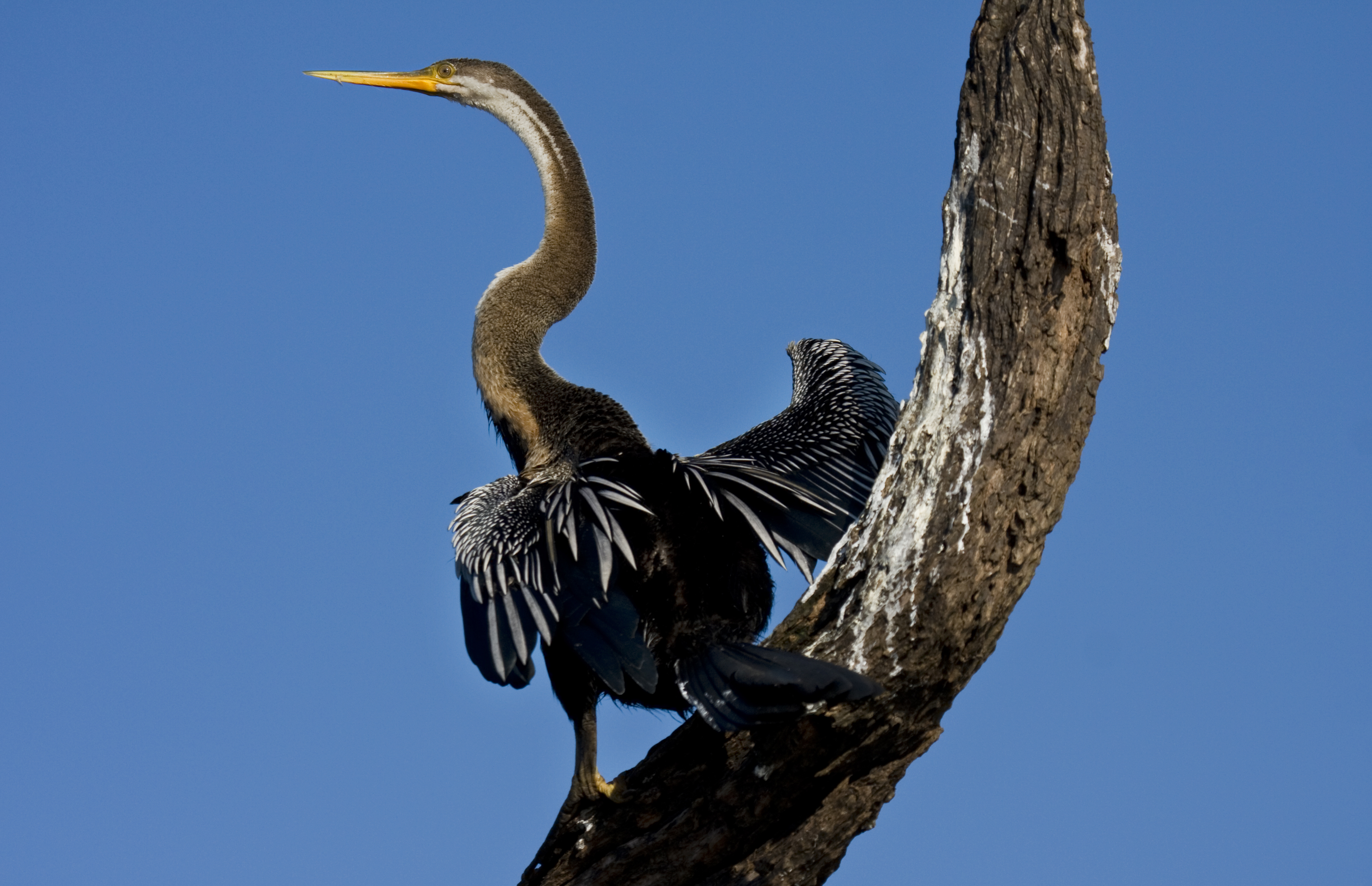 Oriental Darter or Indian Darter (Anhinga melanogaster).